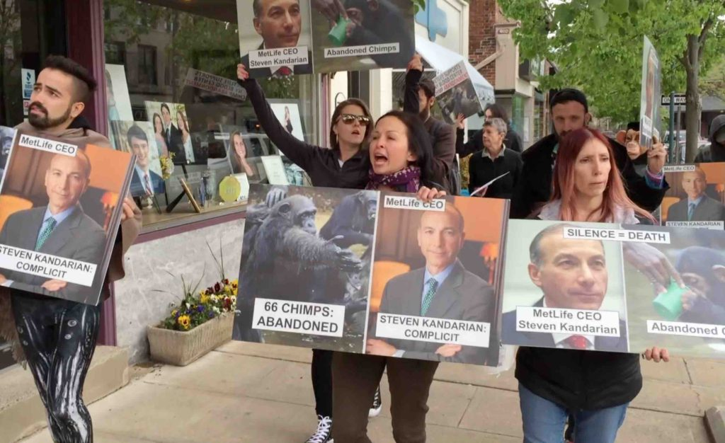 Animal rights activists march through Kandarians home suburb of Summit, NJ.